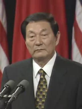 Prem. Rongji at a Press Conference